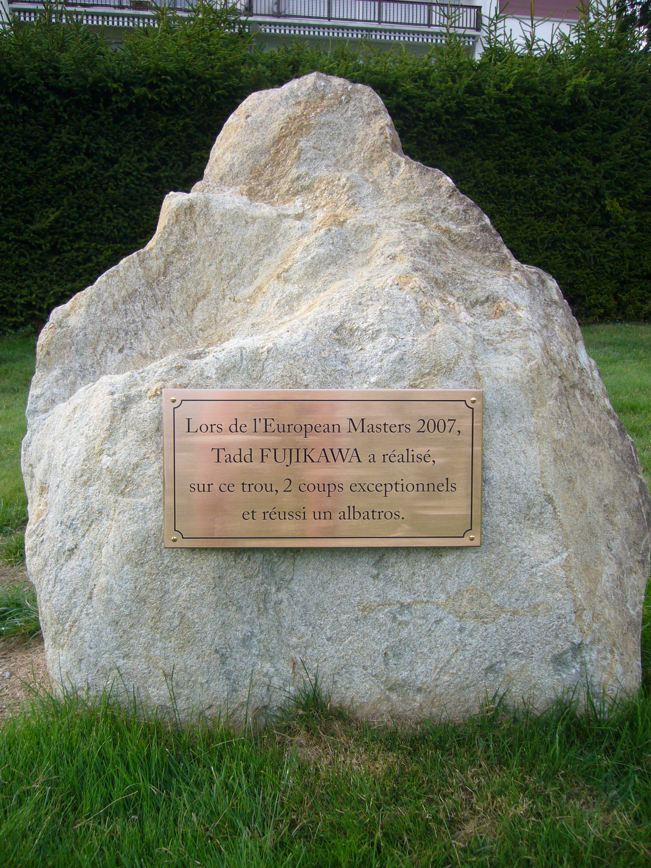 monument for Tadd Fujikawa's albatros during Swiss Open 2007, Crans Golfclub, at the longest par5 in Europe